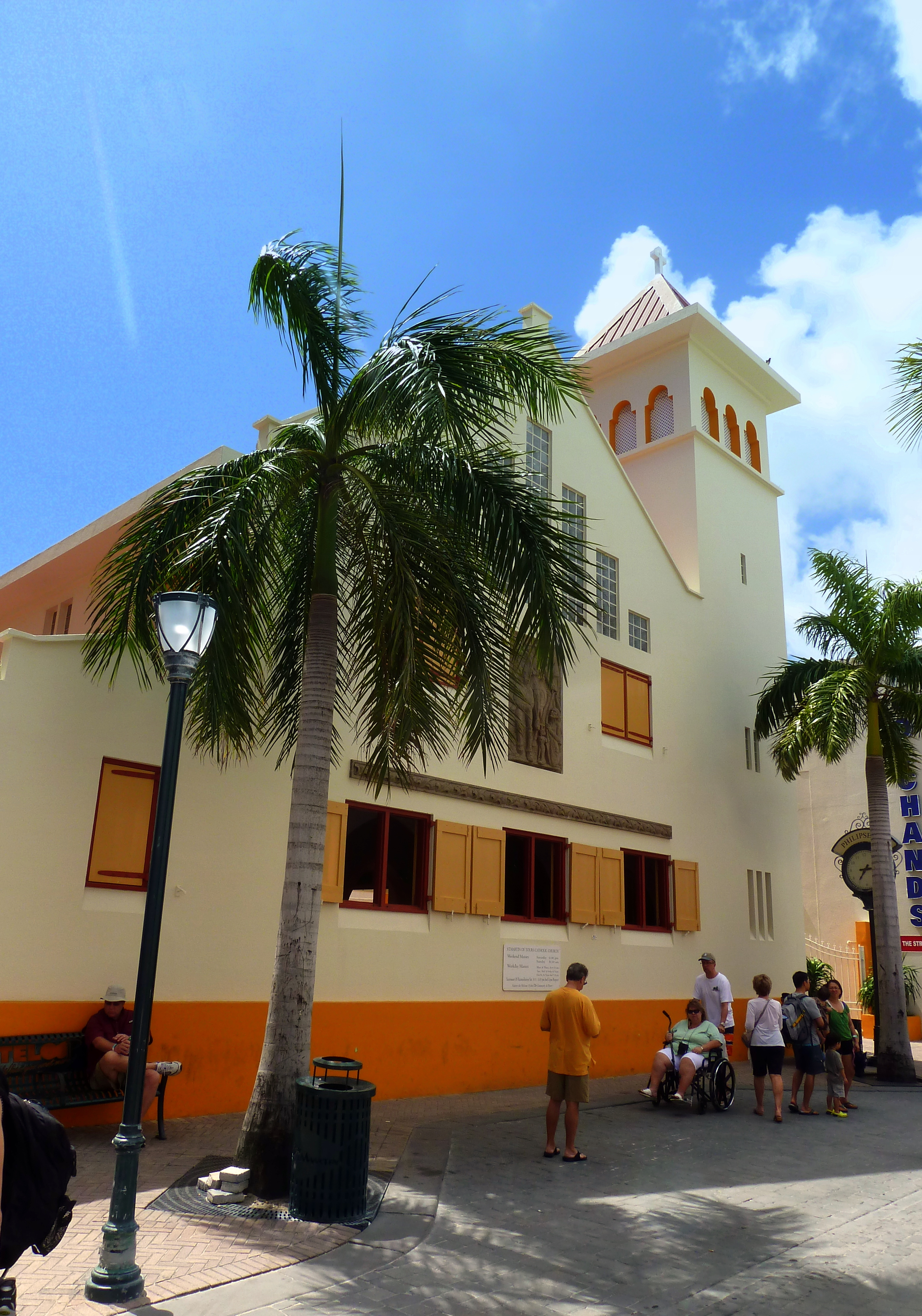 Philipsburg – Front St. / Kerk Steeg - Catholic Church St. Martin of Tours